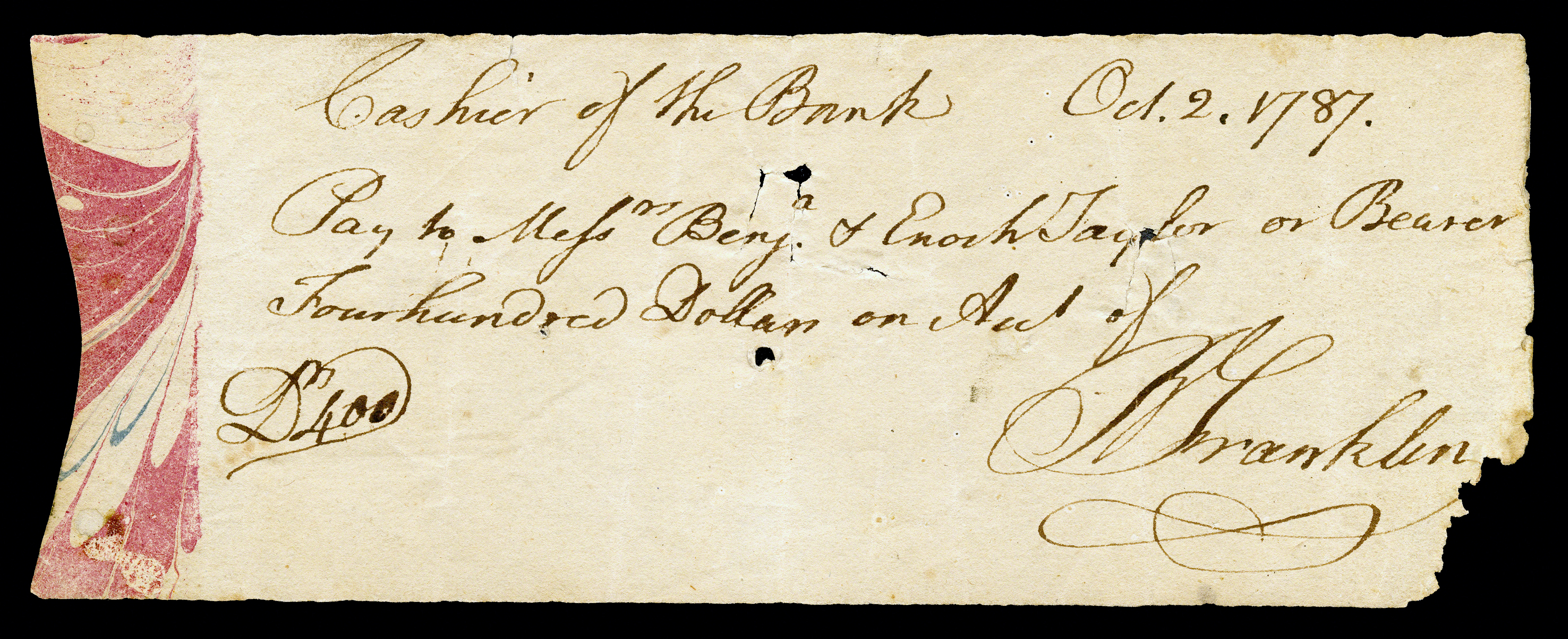 Autograph cheque signed by Benjamin Franklin during his term as the 6th President of Pennsylvania.